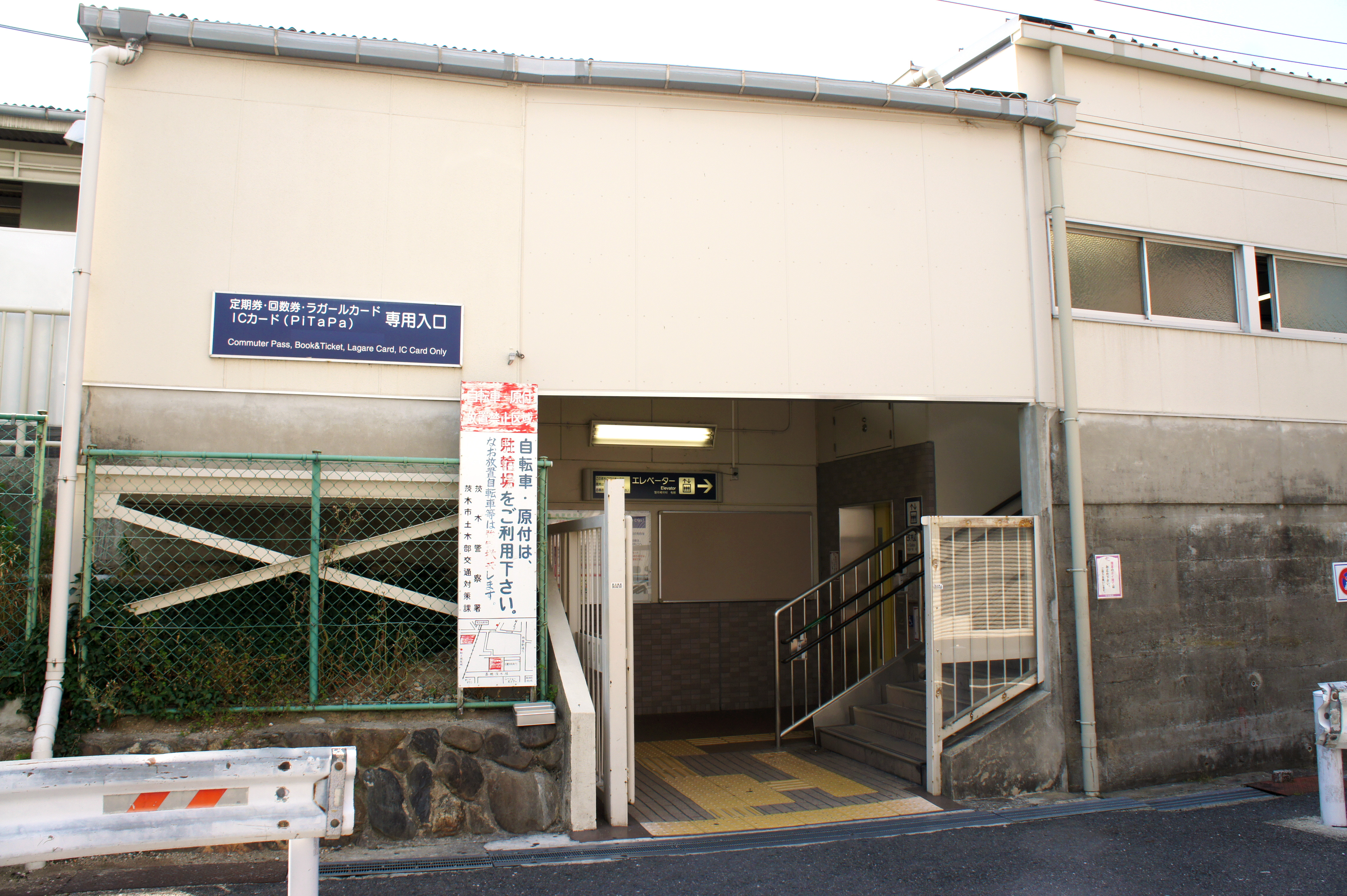 Hankyu Railway Sojiji Station (East Gate), 7-3 Sojiji-Ekimaecho, Ibaraki City, Osaka, Japan